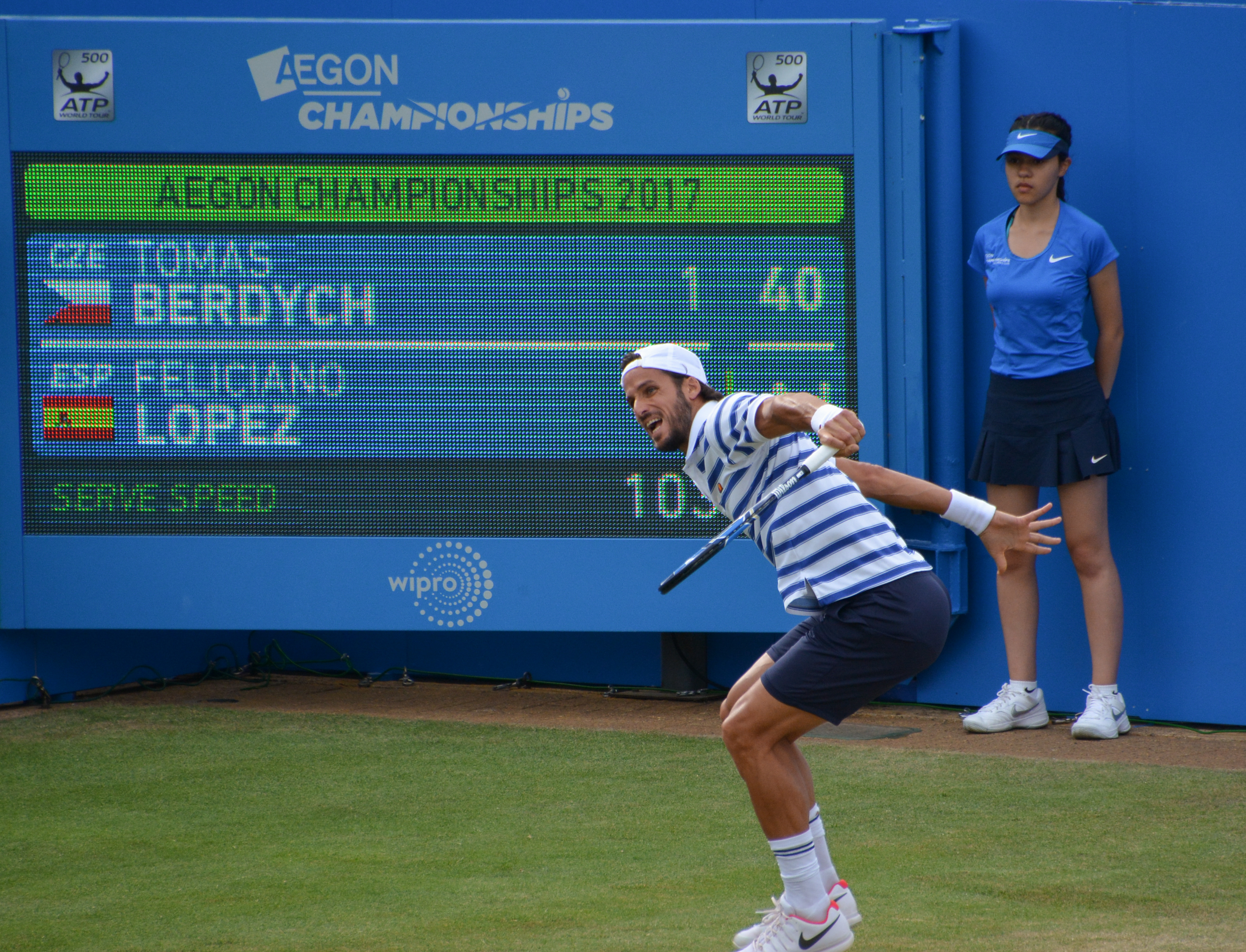 Aegon Championships 2017.